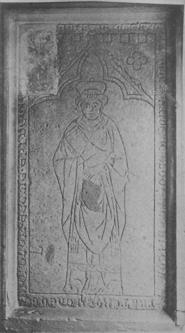 Tombstone of archdeakon Bedřich in Olomouc deanery.